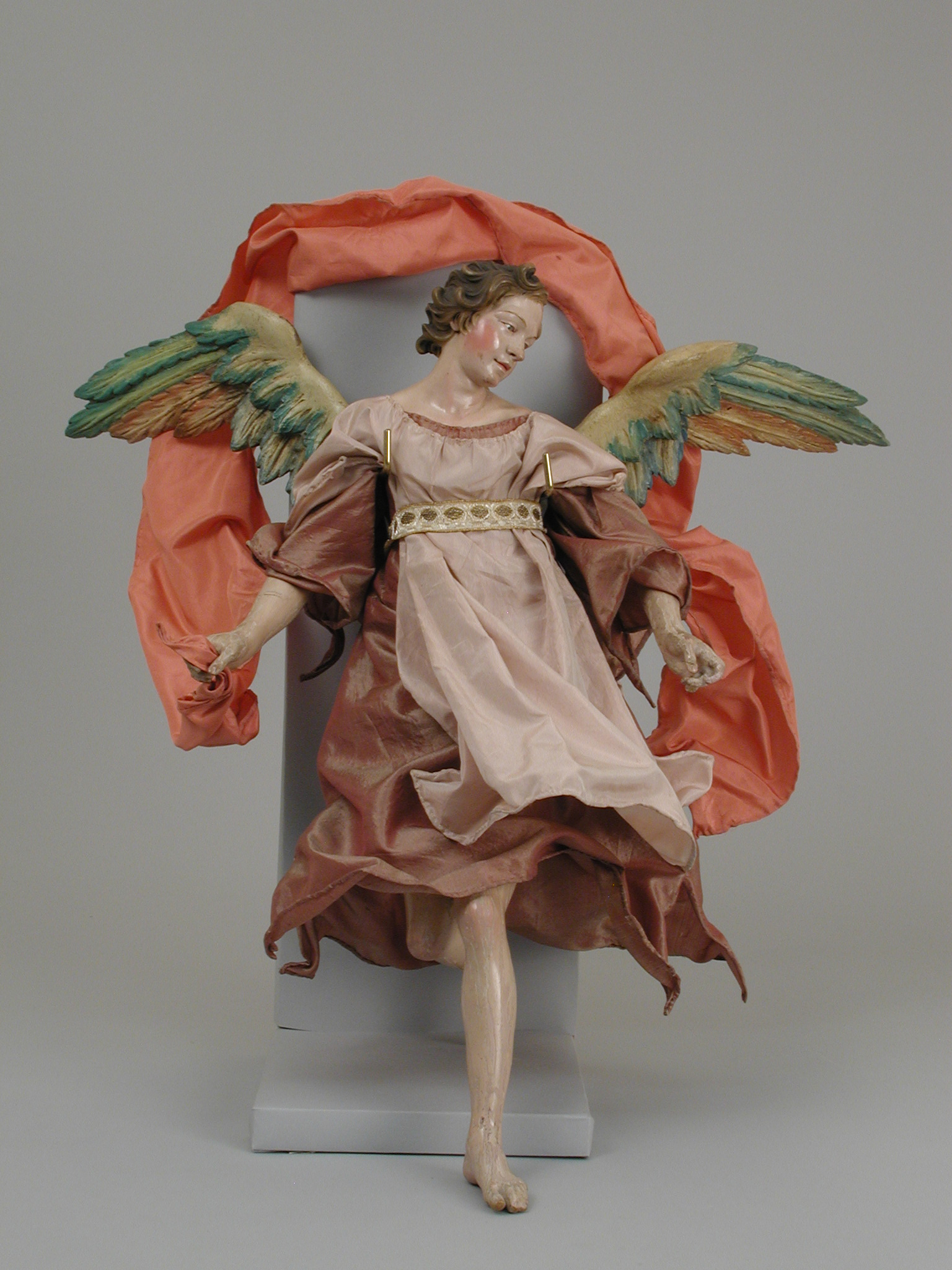 Italian, Naples; Crèche figure; Crèche